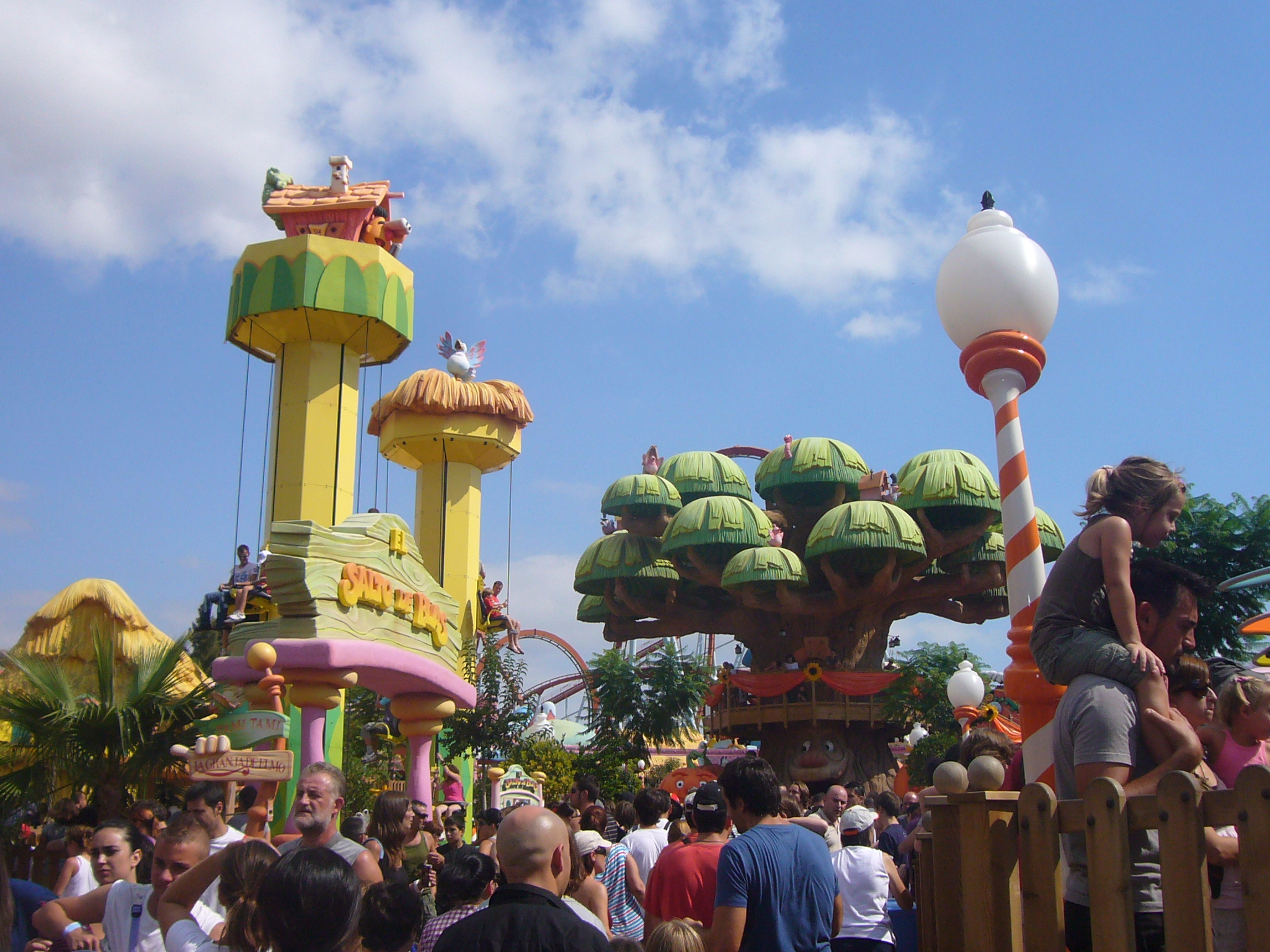 Sesamo Aventura at the PortAventura theme park in Salou, Catalonia, Spain